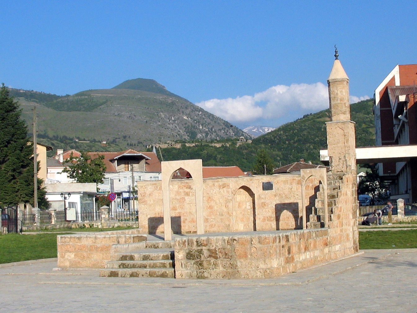 Namazgah: In 1455 Ottoman Turkish army had conquered Prizren. That time this open mosque had built. It is the first work of Ottoman architecture in Prizren. In recent years, has undergone serious repair and renovation. (Prizren / Kosovo)